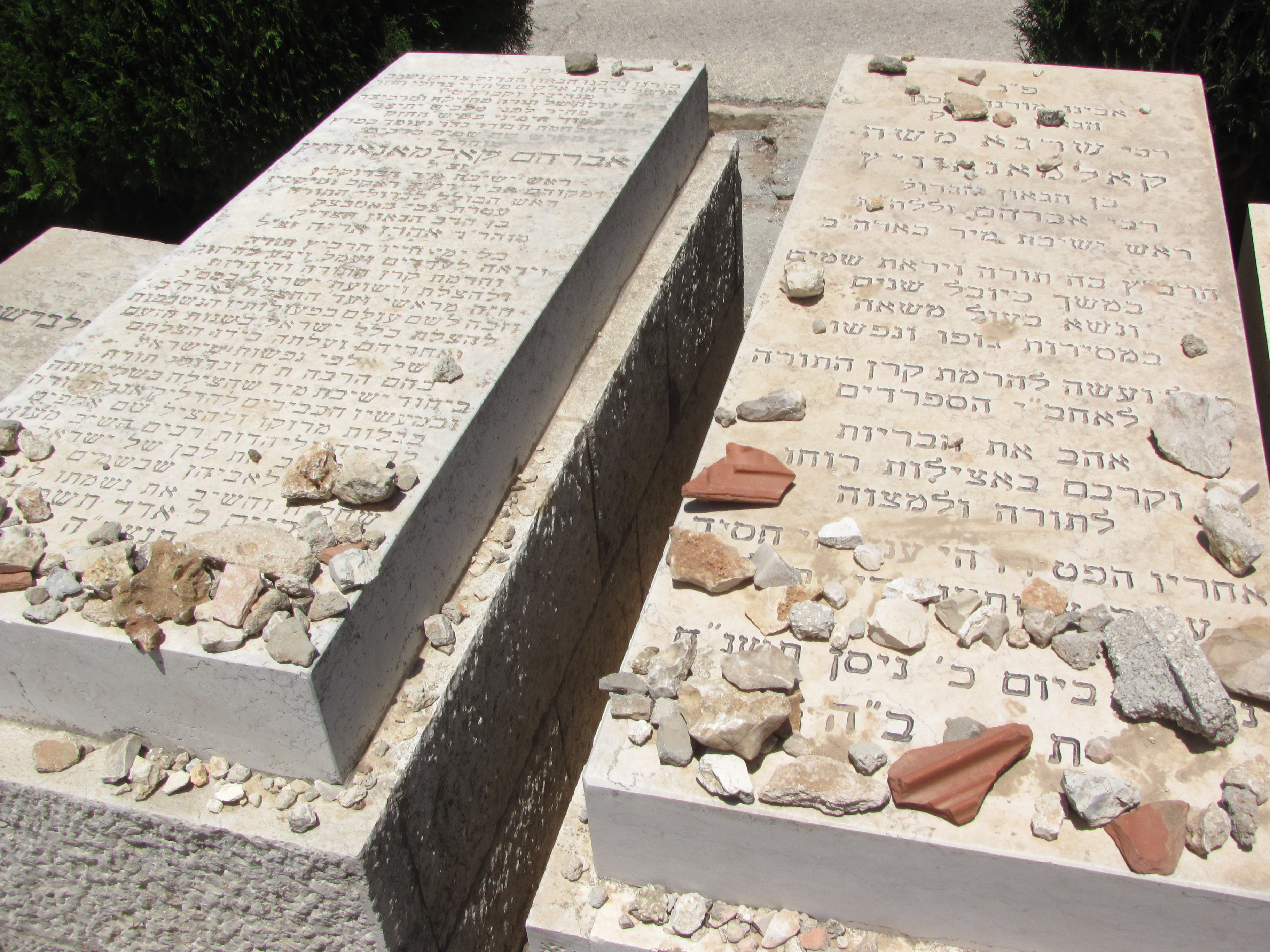 Graves of Rabbi Avraham Kalmanowitz (left) and his son and successor as Rosh Yeshiva of the Mir Yeshiva, Brooklyn, Rabbi Shraga Moshe Kalmanowitz (right), in Sanhedria Cemetery, Jerusalem, Israel.